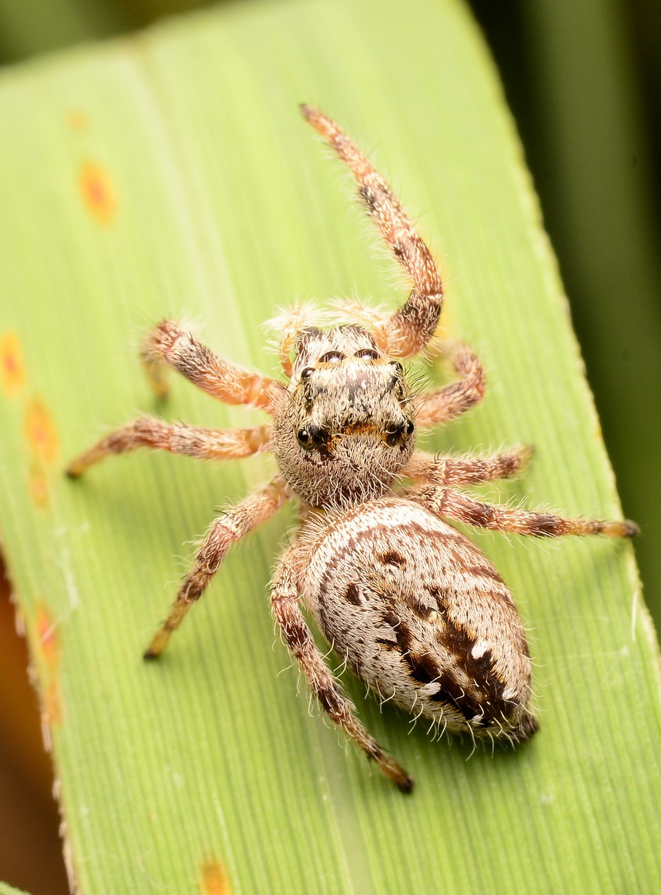 Adult female Phidippus clarus dorsal